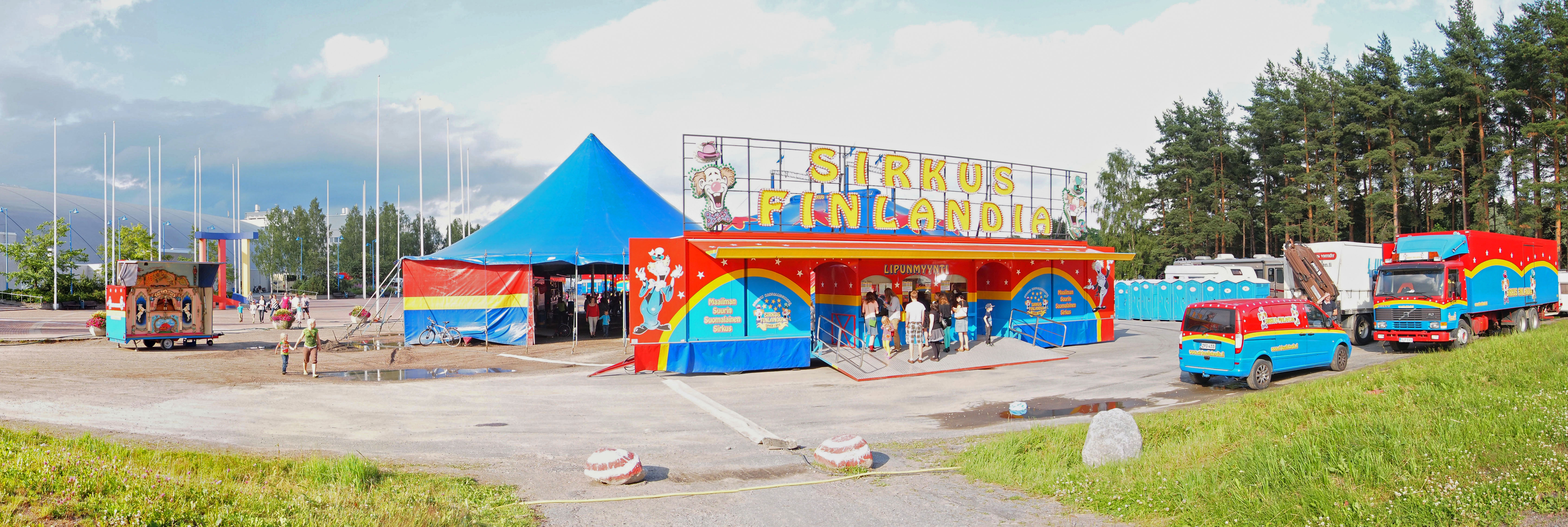 Sirkus Finlandia in Jyväskylä, near Hipposhalli in July 2012.